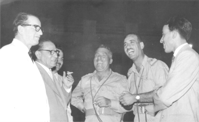 فؤاد الركابي والرئيس العراقي عبد السلام عارف